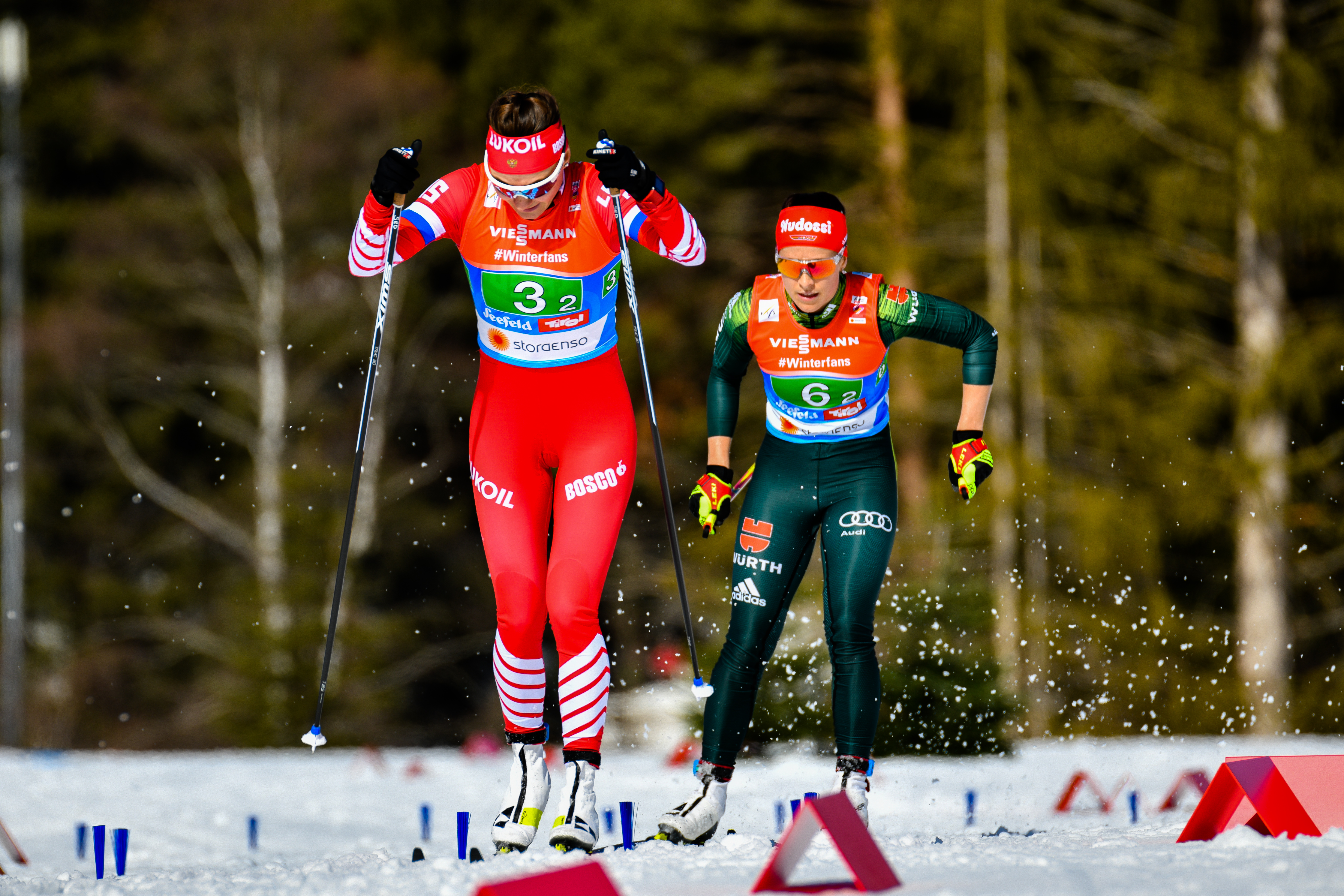 FIS Nordic World Ski Championships Seefeld 2019 - Ladies 4x5km Relay Classic/Free. Picture shows Anastasia Sedova (RUS), Katharina Hennig (GER).